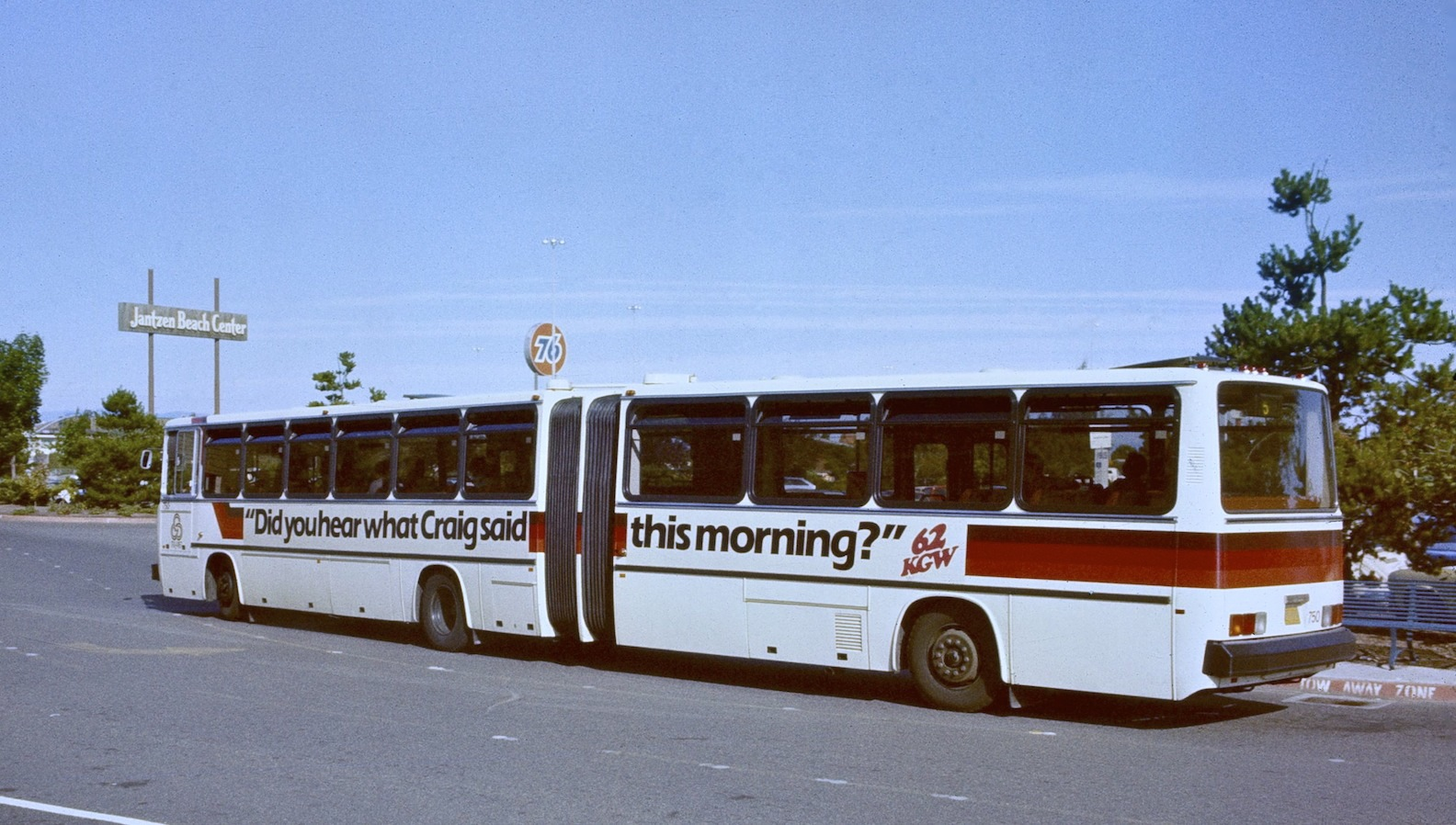 Side/rear view of Tri-Met bus 750, a 1982 Crown-Ikarus articulated bus, at a bus stop outside Jantzen Beach Center mall, in 1982. It was running on line 5-Interstate, and the photo was taken on the first day of service of articulated buses on that route, although articulated buses had entered service on other routes on January 31, 1982. The advertisement along the side of bus 750 was referring to longtime Portland disc-jockey Craig Walker, whose show aired on 62 KGW radio at that time.